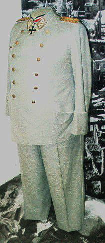 Uniform of Hermann Göring (part of an exhibition about the history of the Iron Cross in the museum of the Luftwaffe in Berlin-Gatow, 2003)